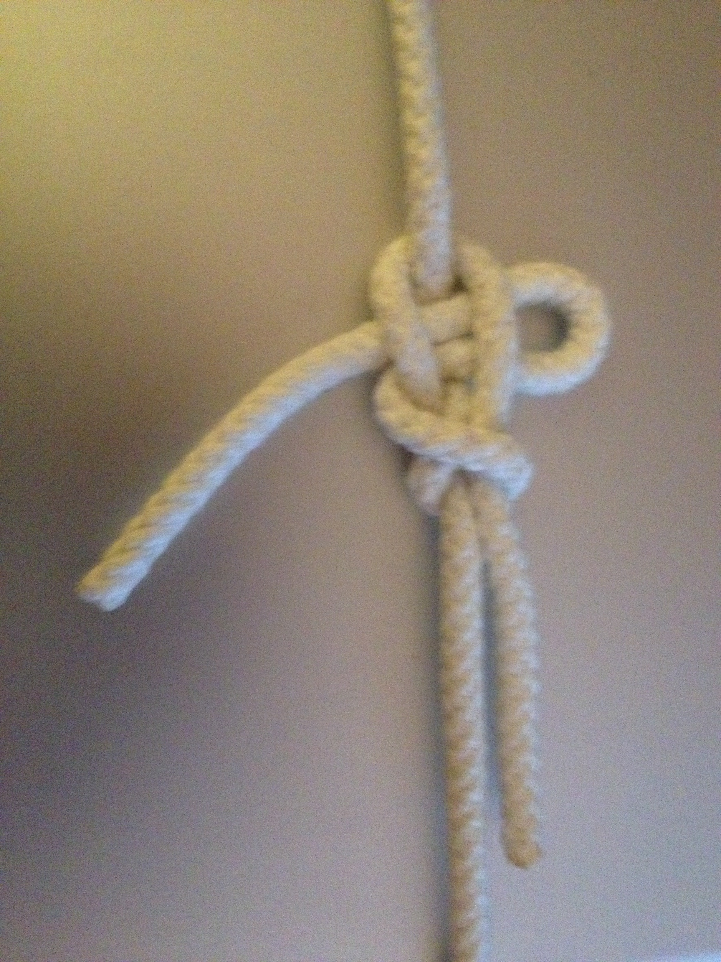 Knot described in attributed to Roger Johnson (Fire Engineering, march 1990), picture by cobanyastigi@wikimedia